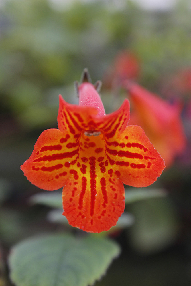 Achimenes pedunculata, a species of rhizomatous, herbaceous, tender perennial plant